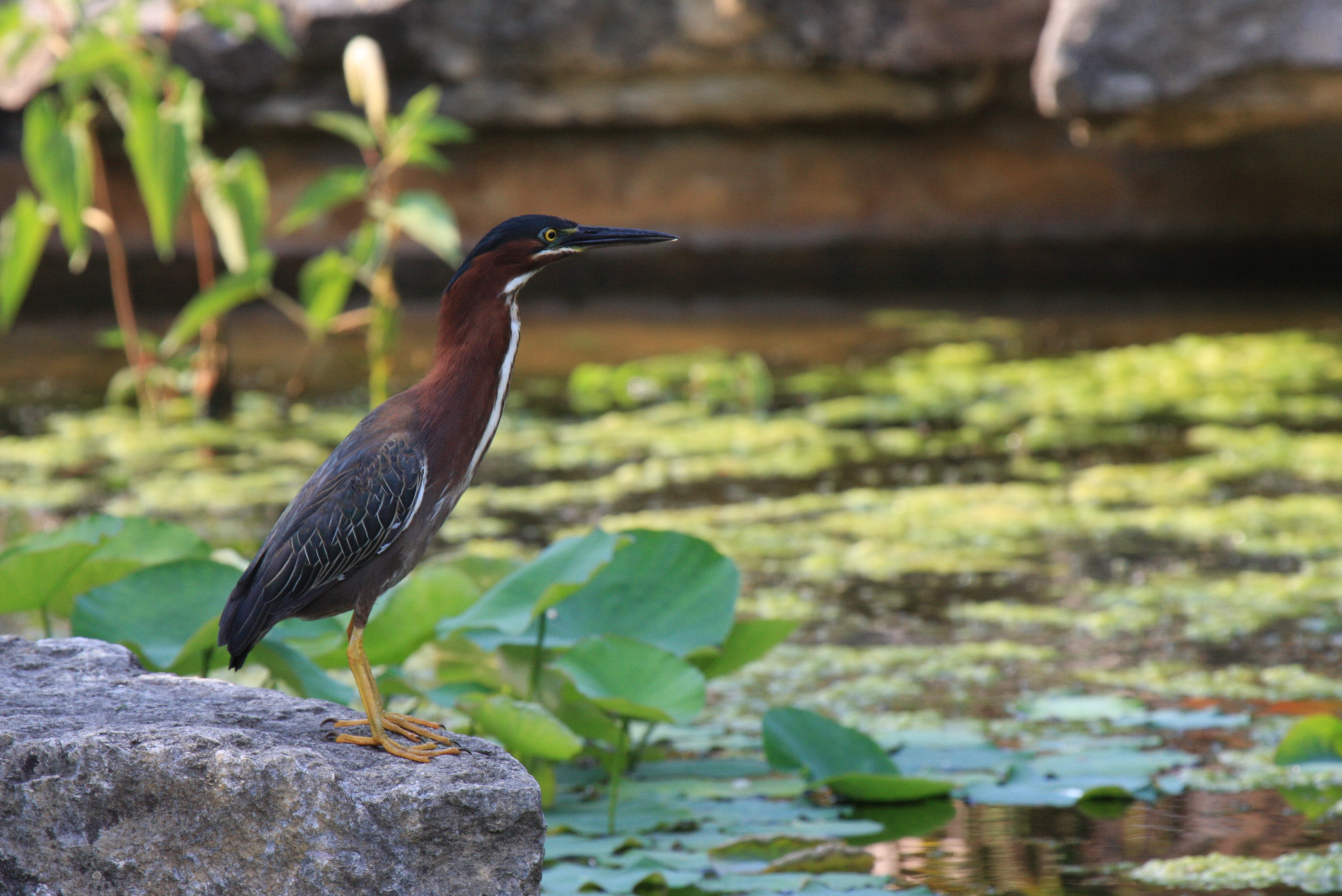 Green Heron (Butorides virescens) standing by a pond, extending its neck.